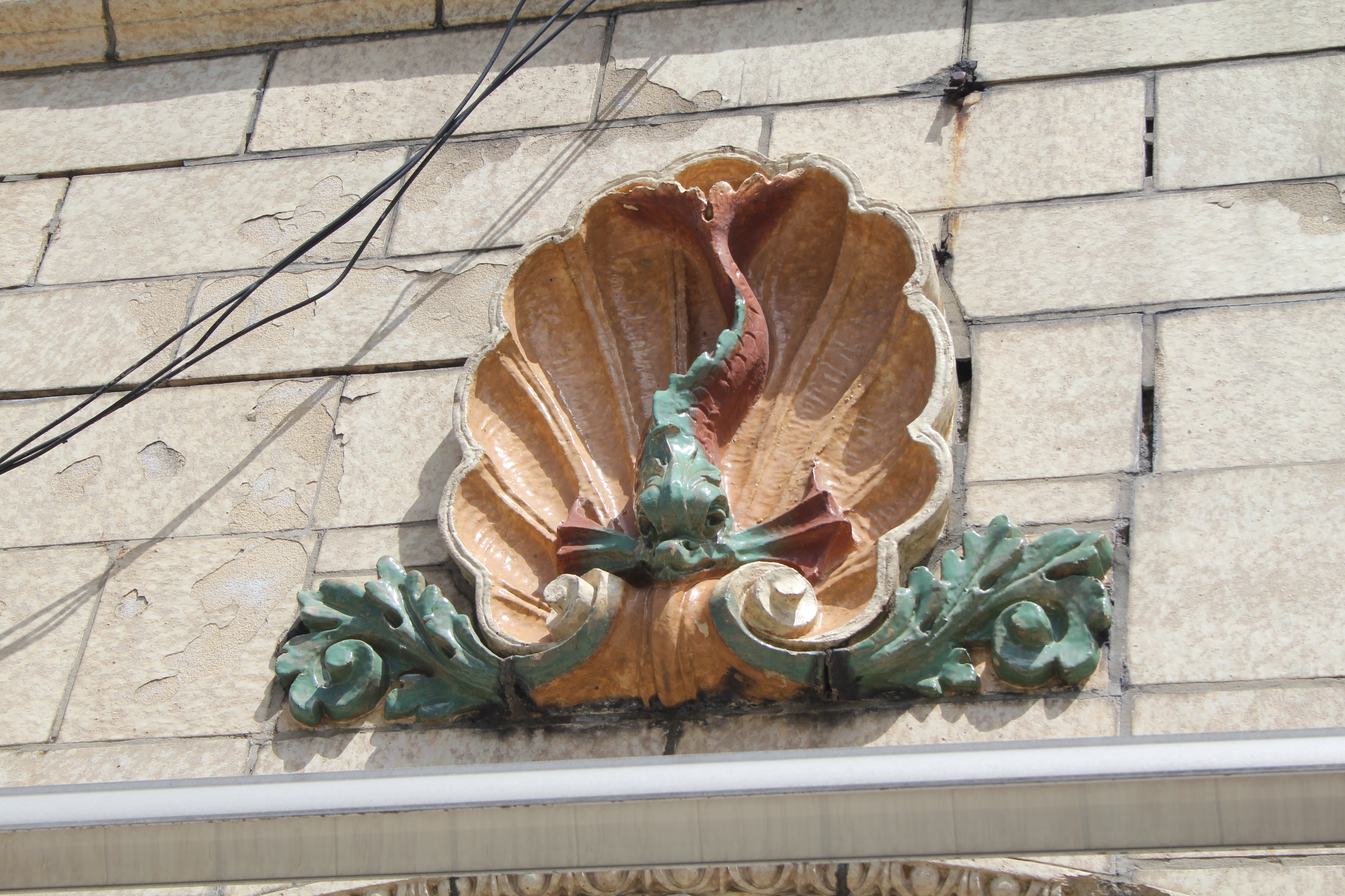 Former Childs restaurant in Woodside, Queens at 5937 Queens Blvd. Terra cotta detail.